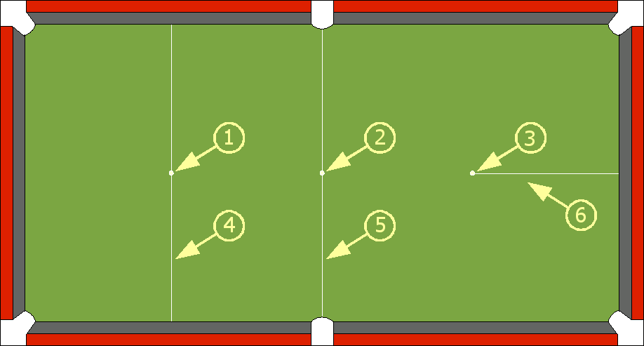 Russian billiards table markup.